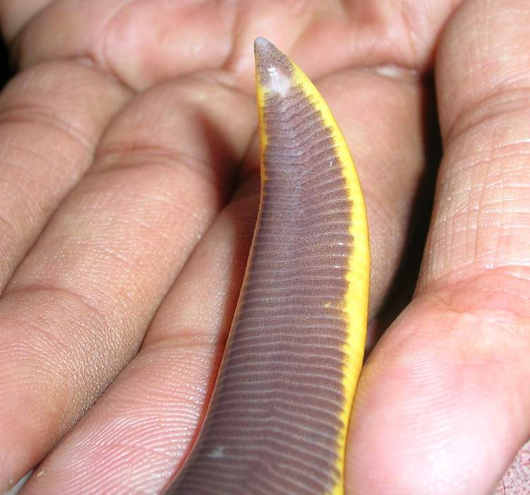 Caecilian from Wynaad 2005 Ichthyophis sp.